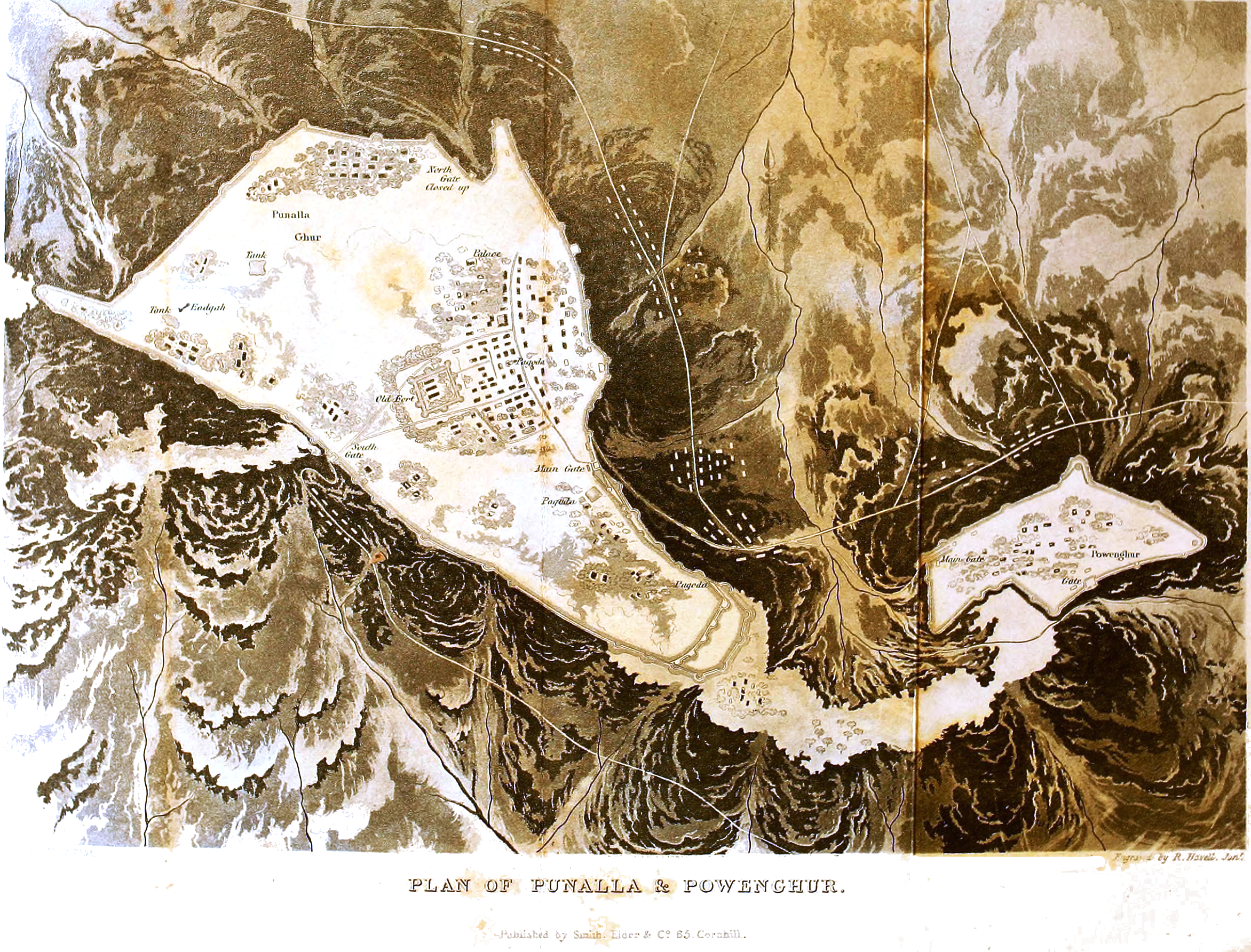 Plan of Pavangarh fort, Panhala